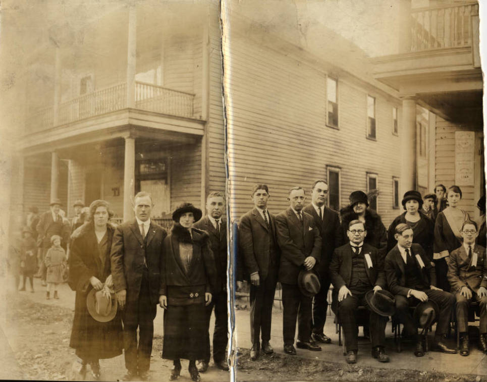 Members are standing in front of the meeting hall, which appears to be a personal home. NJWA was the Americanized name for the Farband. Date: 1920? Source: 15 cm x 24 cm Format: Sepia-toned photo Subject: Social issues; Mixed organizations; Socialism Coverage: Minneapolis; Hennepin; Minnesota; United States Local Identifier: P404 Link to our record: From the Steinfeldt Photography Collection of the